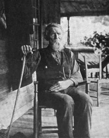 Bear hunter and mountain Thomas "Big Tom" Wilson (1825–1909), photographed by the U.S. Forest Service. Wilson was a guide in the Black Mountains area of North Carolina. "Big Tom," a summit near Mount Mitchell, is named for him.